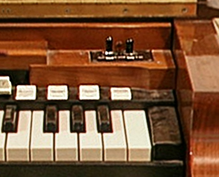 "Start" and "Run" switches on the Hammond B3 Organ